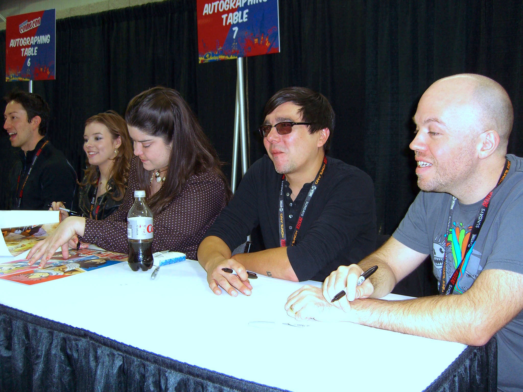 The voice cast of the anime Fairy Tail, during an October 16, 2011 appearance at the New York Comic Con. Seated behind the table, from left to right: Todd Haberkorn, Cherami Leigh, Colleen Clickenbeard, Newton Pittman and Tyler Walker. This photo was created by Luigi Novi. It is not in the public domain, and use of this file outside of the licensing terms is a copyright violation.